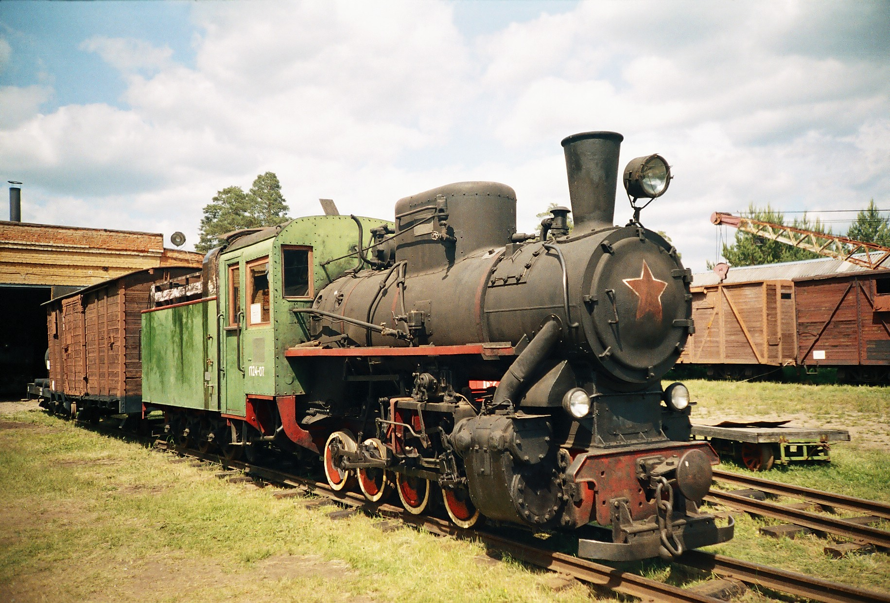 Russian narrow gauge steam locomotive Kp4‑469 (Polish-made) in Pereslavl Railway Museum